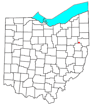 Locator map of the unincorporated community of East Rochester in Columbiana County, Ohio, United States.